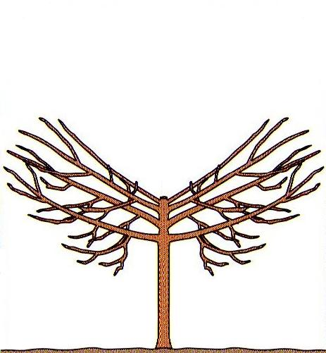 Please somebody write the name in english!